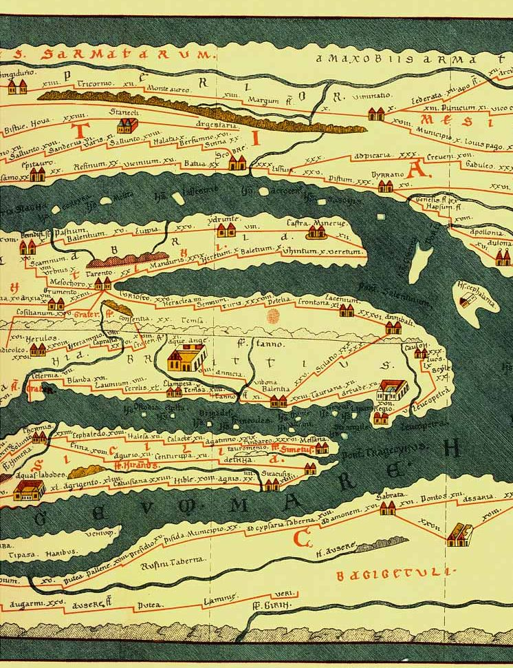 Part of Tabula Peutingeriana, konrad miller´s facsimile from 1887Dacia, Epirus, Macedonia, Dalmatia, Achaia, Sicily, Cyrenaica